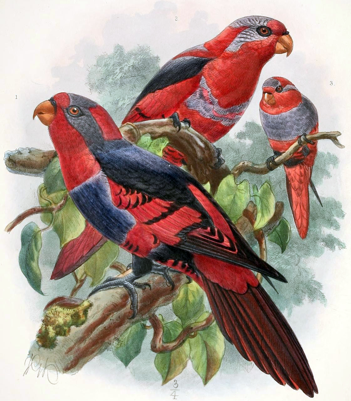 The Red and Blue Lory (Eos histrio now Eos histrio histrio) and The Challenger Lory (Eos challengeri now Eos histrio challengeri) Chromolithograph. Plate VII from A monograph of the lories, or brush-tongued parrots, composing the family Loriidae. By St. George Jackson Mivart (1827–1900). Artwork by John Gerard Keulemans (1842-1912). This was published by R. H. Porter (London) in 1896.